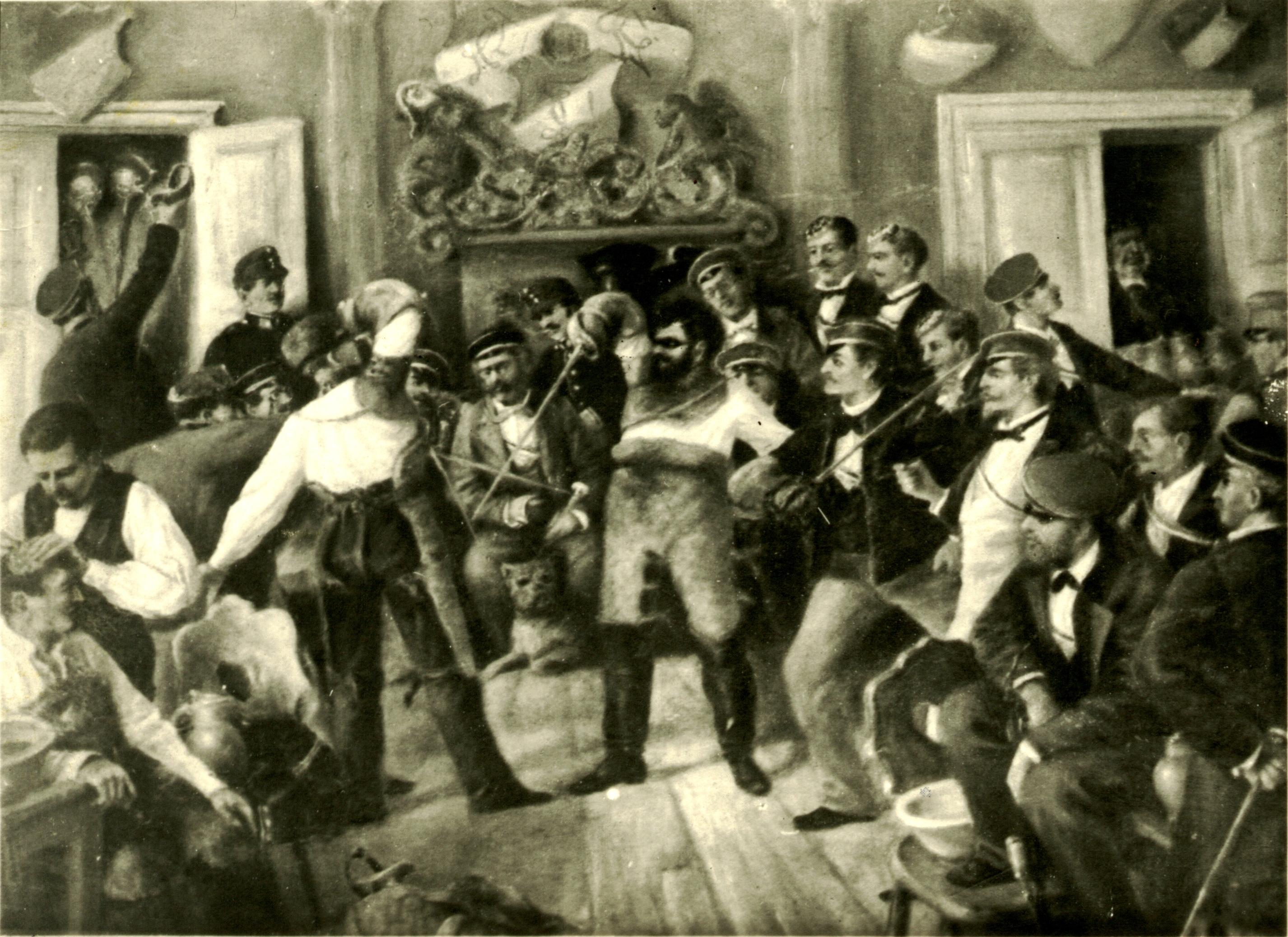 so called "Mensur auf Prager Plempe" painted by Karl Czepelak ca. 1877